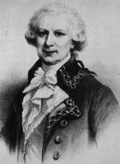 Louis-Antoine_de_Bougainville portrait